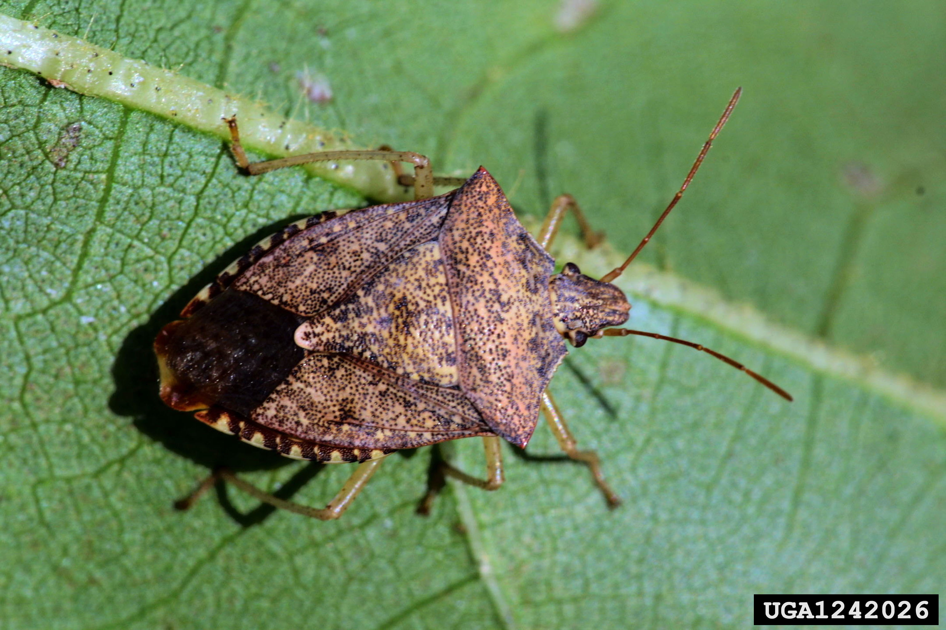 Brown stinkbug (Euschistus servus) (adult) ; family Pentatomidae